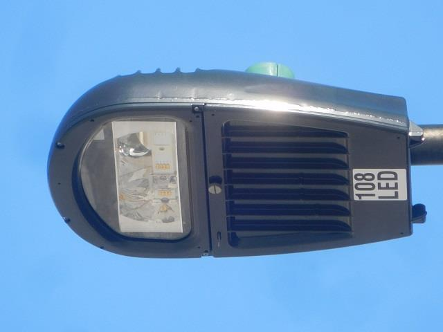 History of street lighting: General Electric Evolve ERS1 Scalable - Black version found in Wakefield, Massachusetts